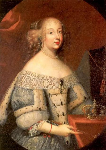 Marie Jeanne of Savoy (1644-1724) as the Duchess of Savoy